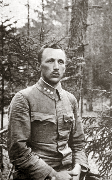 Franciszek Sikorski (1889-1940) – General of the Polish Army. Photo from period of his military service in Polish Legions in World War I